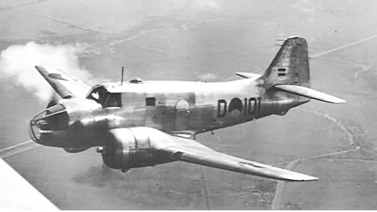 Picture of Fokker S.13 Universal Trainer